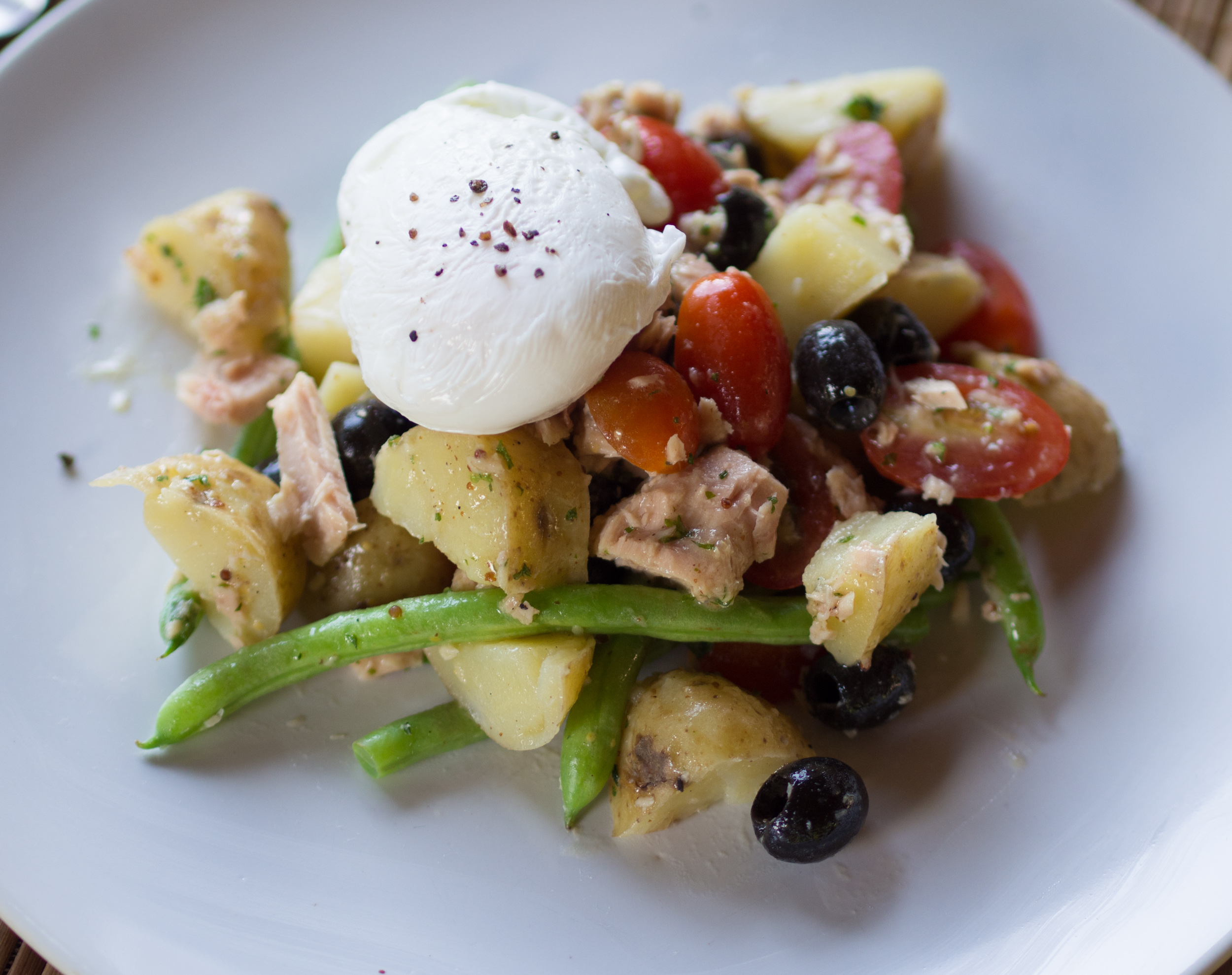 Salade Niçoise at a restaurant near Chiang Dao, in the mountains of Chiang Mai Province, Thailand. This version is served with a poached egg instead of the usual boiled egg.